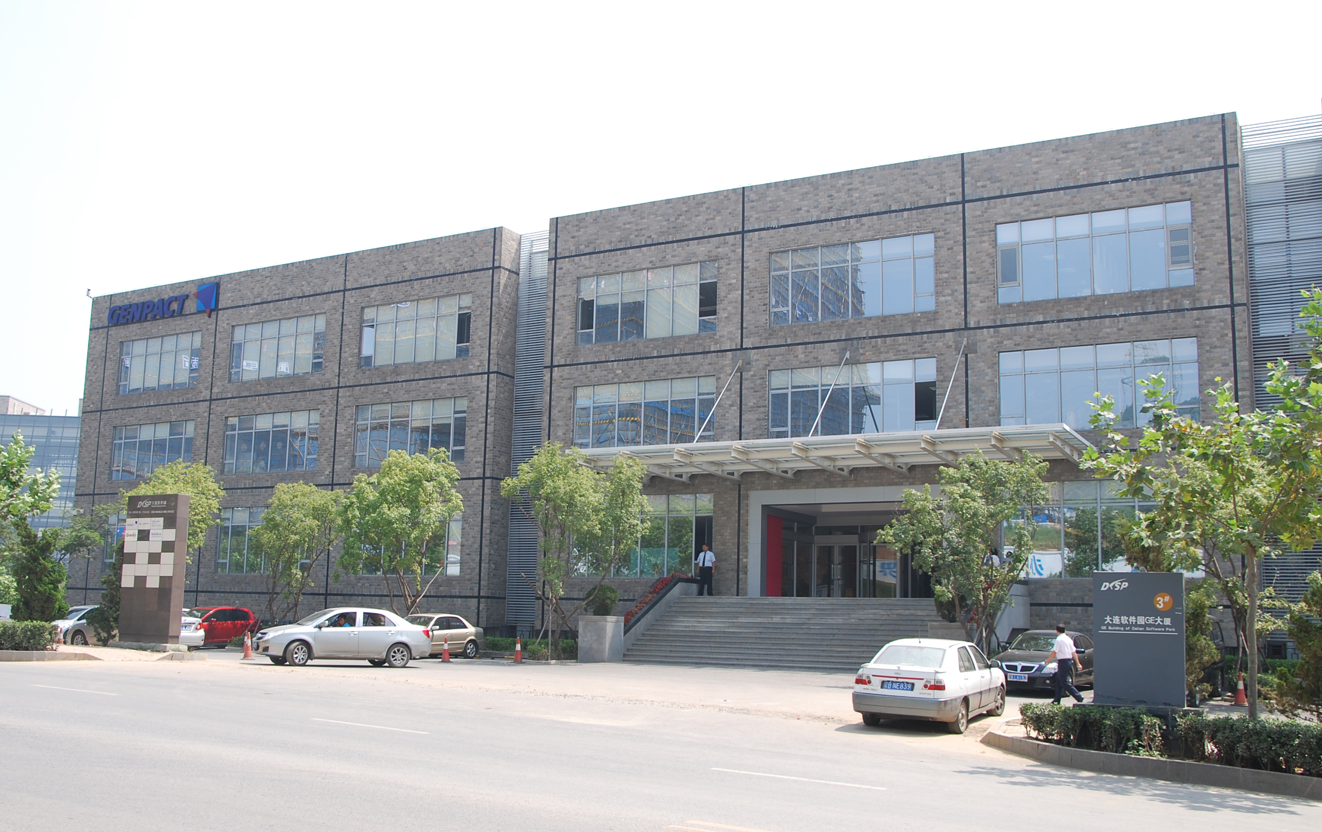 Genpact in Dalian, China